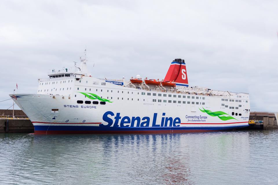 New Strapline paint